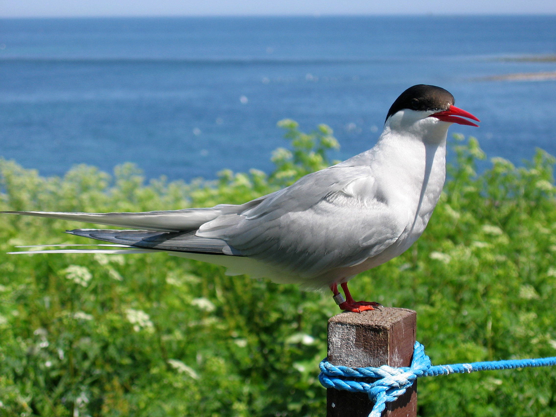 Arctic tern on Farne Islands - The blue rope demarcates the visitors' path